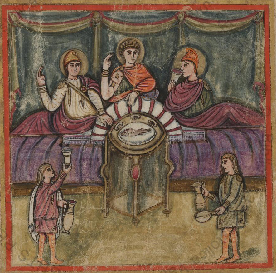 Folio 100v of the Roman Vergil.